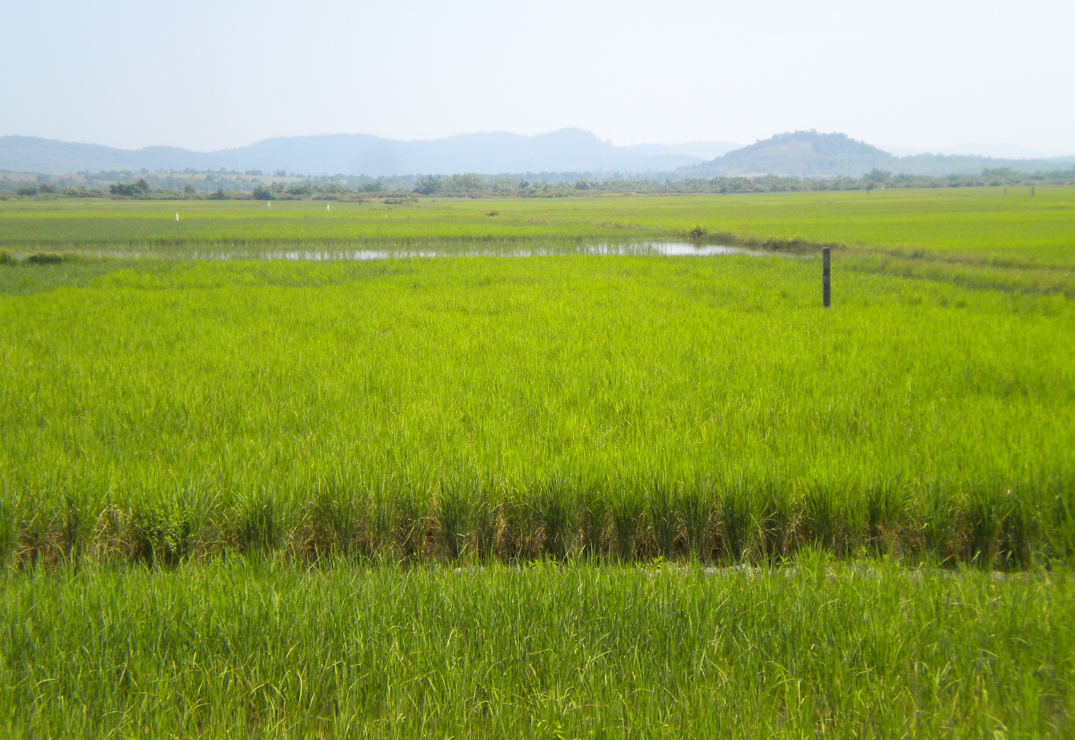 image of rice paddies in ream, prei nob, October 2014